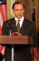 Paul Keating at the U.S. White House in September 1993